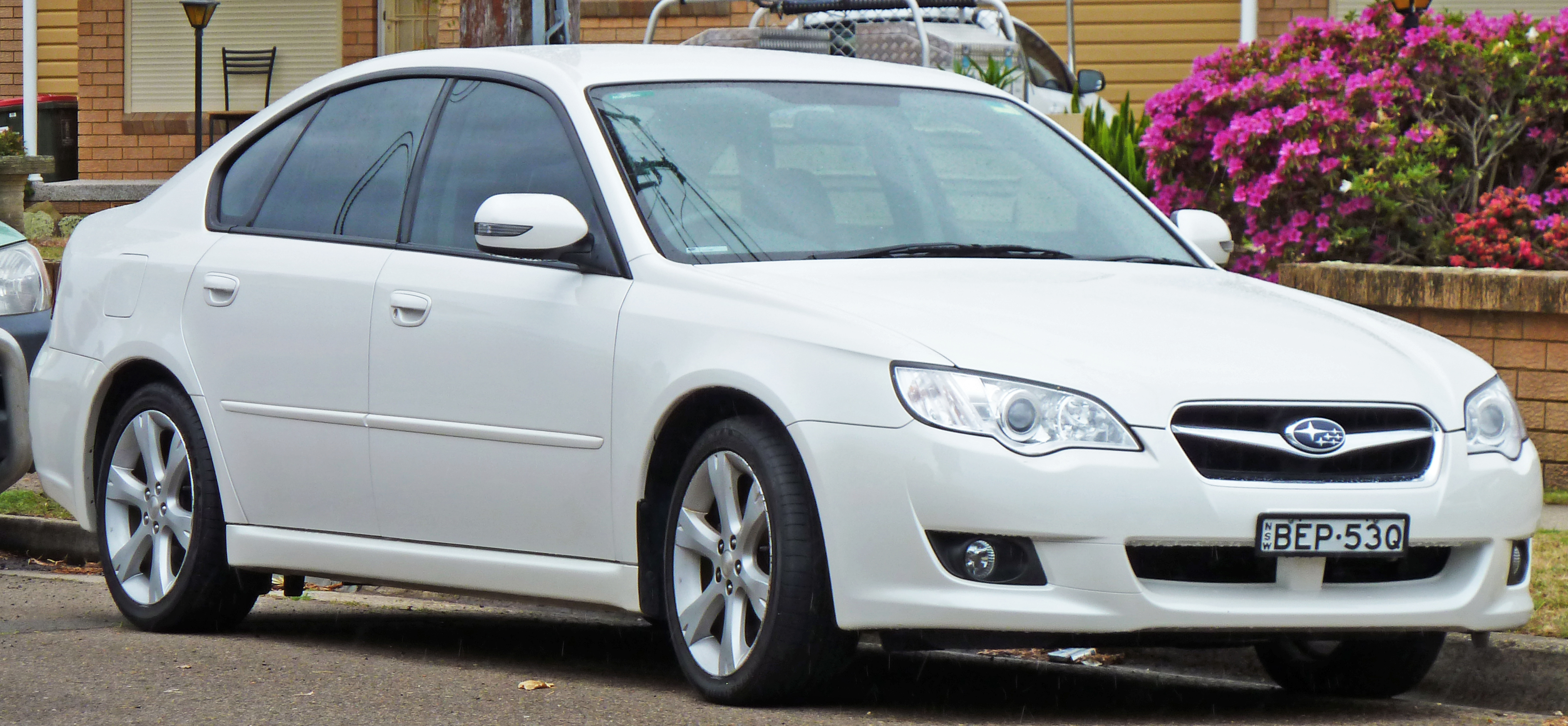 2007 Subaru Liberty (BL9 MY08) 2.5i sedan. Photographed in Sans Souci, New South Wales, Australia.